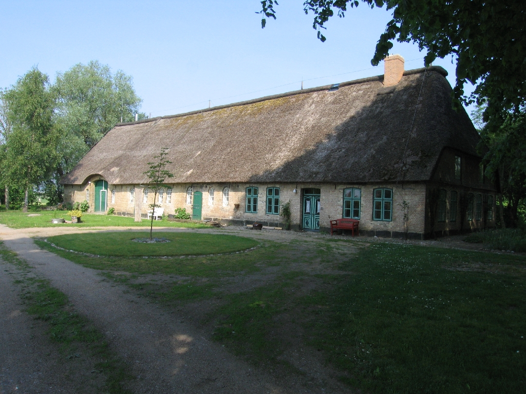 Haus Stamp in Seeth, North Frisia, Germany. An example of a Geestharden house